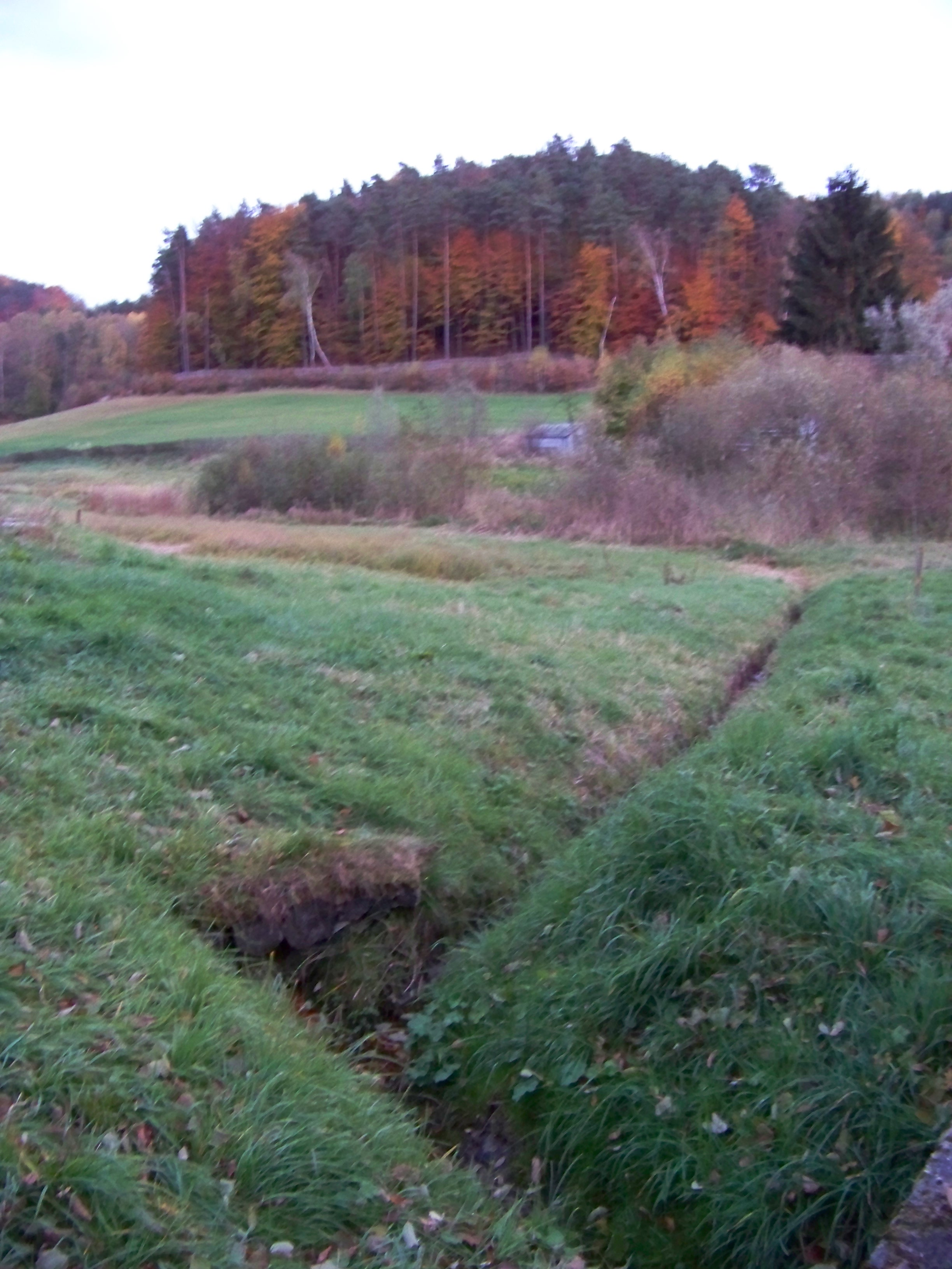 Houska, Česká Lípa District, Liberec Region, the Czech Republic. A spring of Pšovka I.